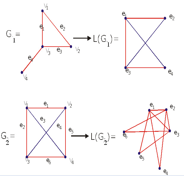 geraph-khat